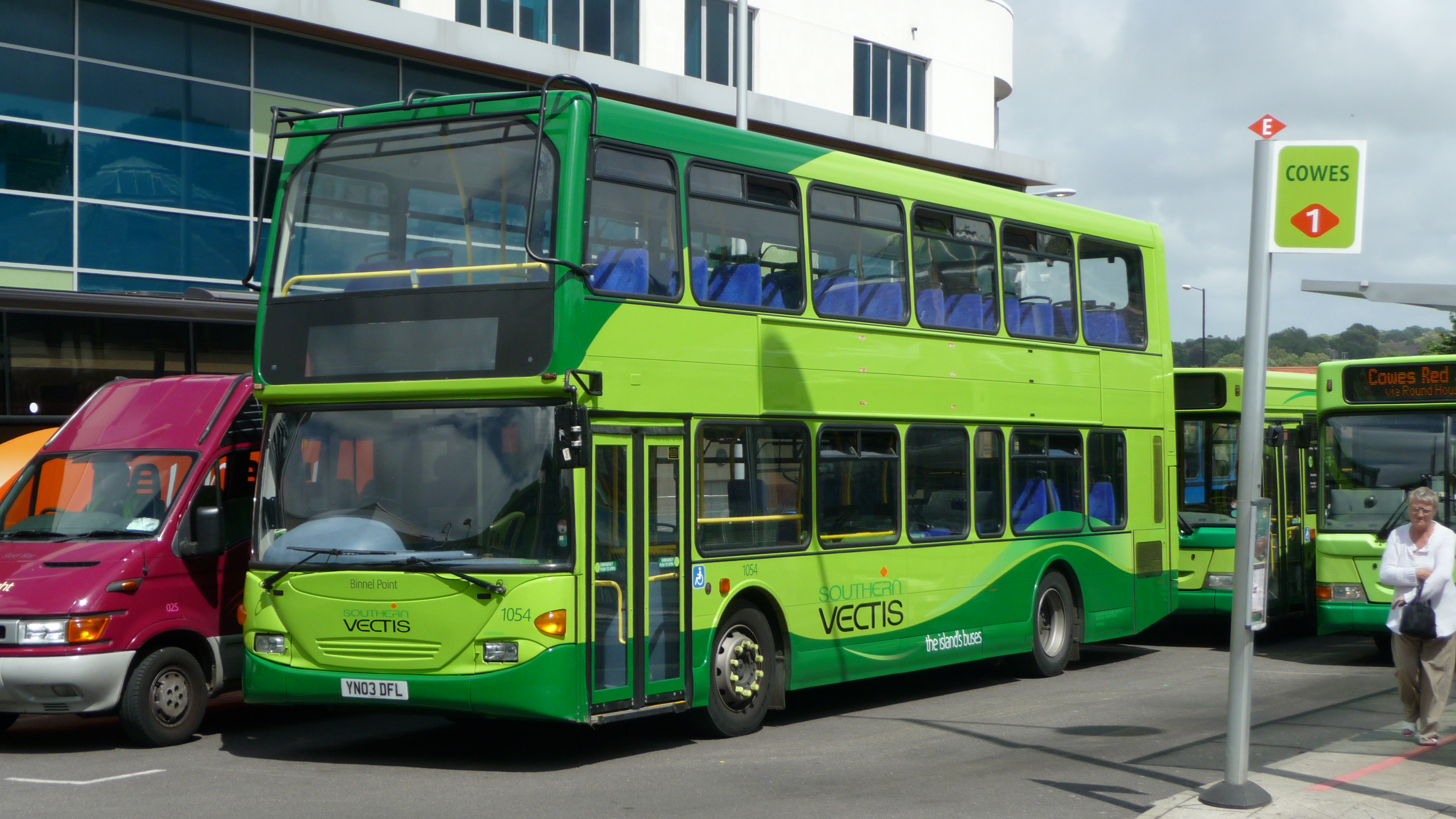 Southern Vectis 1054 Binnel Point (YN03 DFL), a Scania OmniDekka in Newport, Isle of Wight bus station, laying over between duties. It is one of five ex-Metrobus OmniDekkas, transferred to Southern Vectis after they were made surplus to requirements at Metrobus. At the time of the photo, the vehicle was in Southern Vectis' main bus fleet. It is due to move to the coach fleet in September 2010, following large changes.